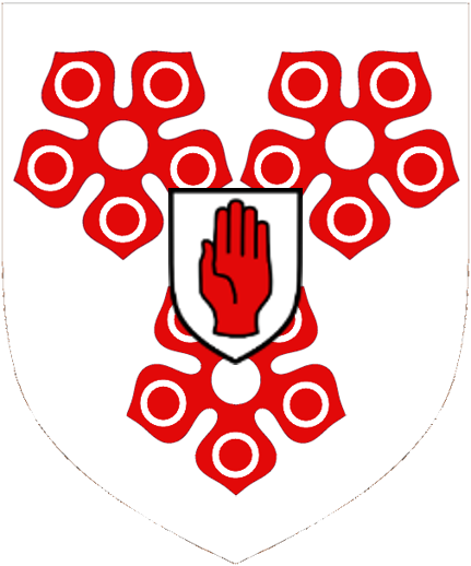 Shield of arms of The Viscount Southwell